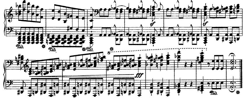 End of the Transcendental Étude No. 2, "Fusées", by Franz Liszt.